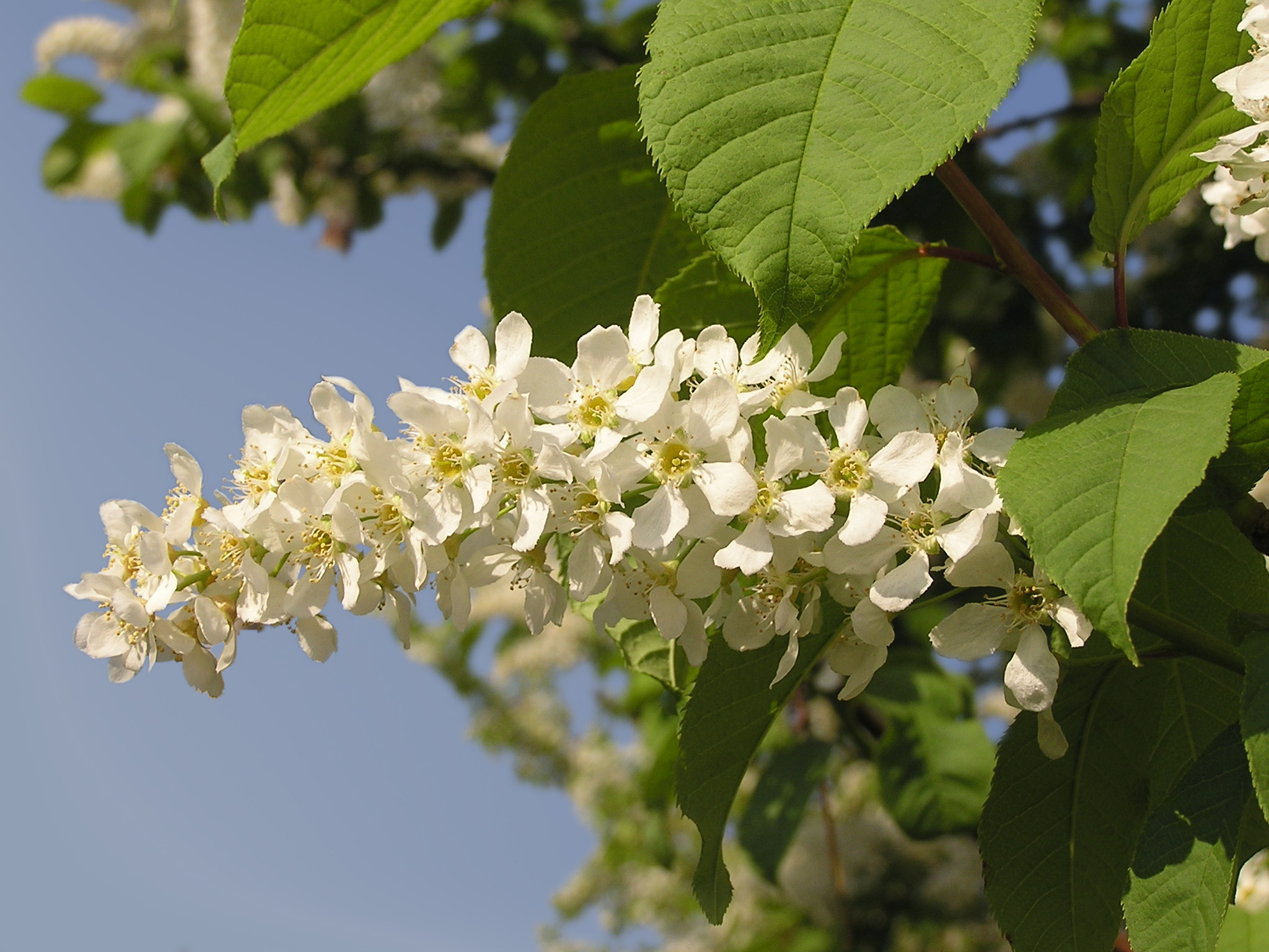 flowers of Bird Cherry (Prunus padus).